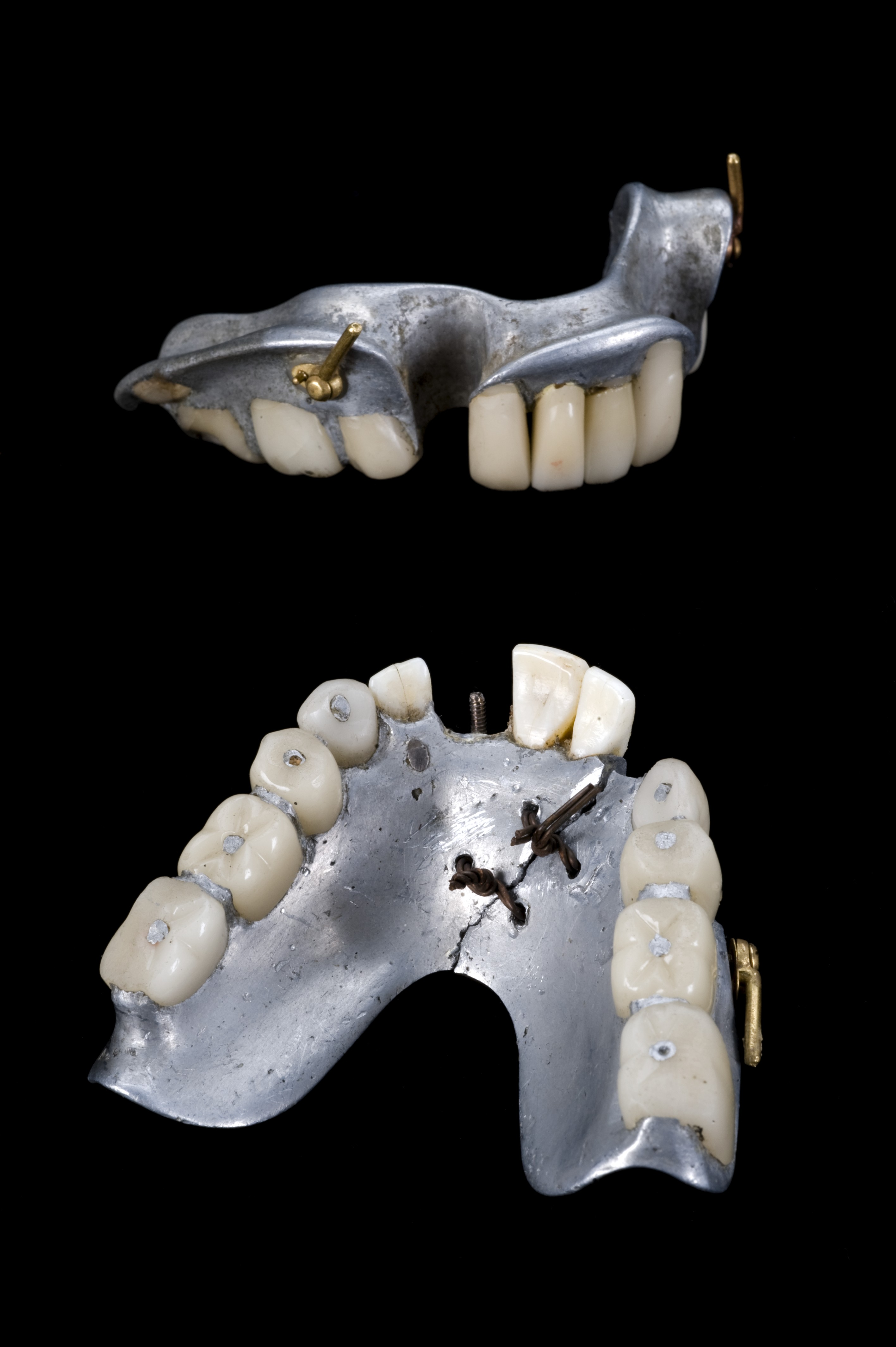 These dentures are made from aluminium plates held together with gold pins. The teeth are a mixture: some are porcelain and others real human teeth. The real ones are those at the front and may have come from living donors. Alternatively, they may have come from a corpse. One major source of teeth in the early 1800s was the battlefields of Europe. After a battle, the dead were not only stripped of clothing and valuable personal possessions, they could also lose their teeth, prised out in their thousands by men who recognised the value of this human commodity. So many teeth were removed for this reason following the Battle of Waterloo in 1815 that the market was flooded, and dentures that included human teeth became known as ‘Waterloo teeth’. This set is likely to have been made for a wealthy individual who had lost some teeth through age, illness or injury. maker: Unknown maker Place made: Europe Wellcome Images Keywords: denture; human remains; Dentistry